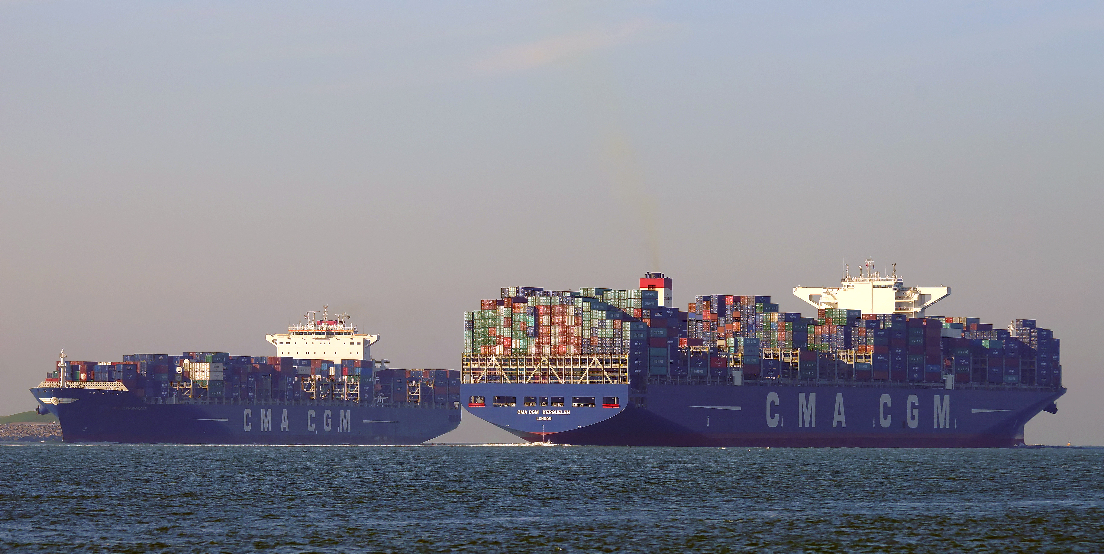 The Container ships CMA CGM Samson and CMA CGM Kerguelen, Maasmond - Rotterdam